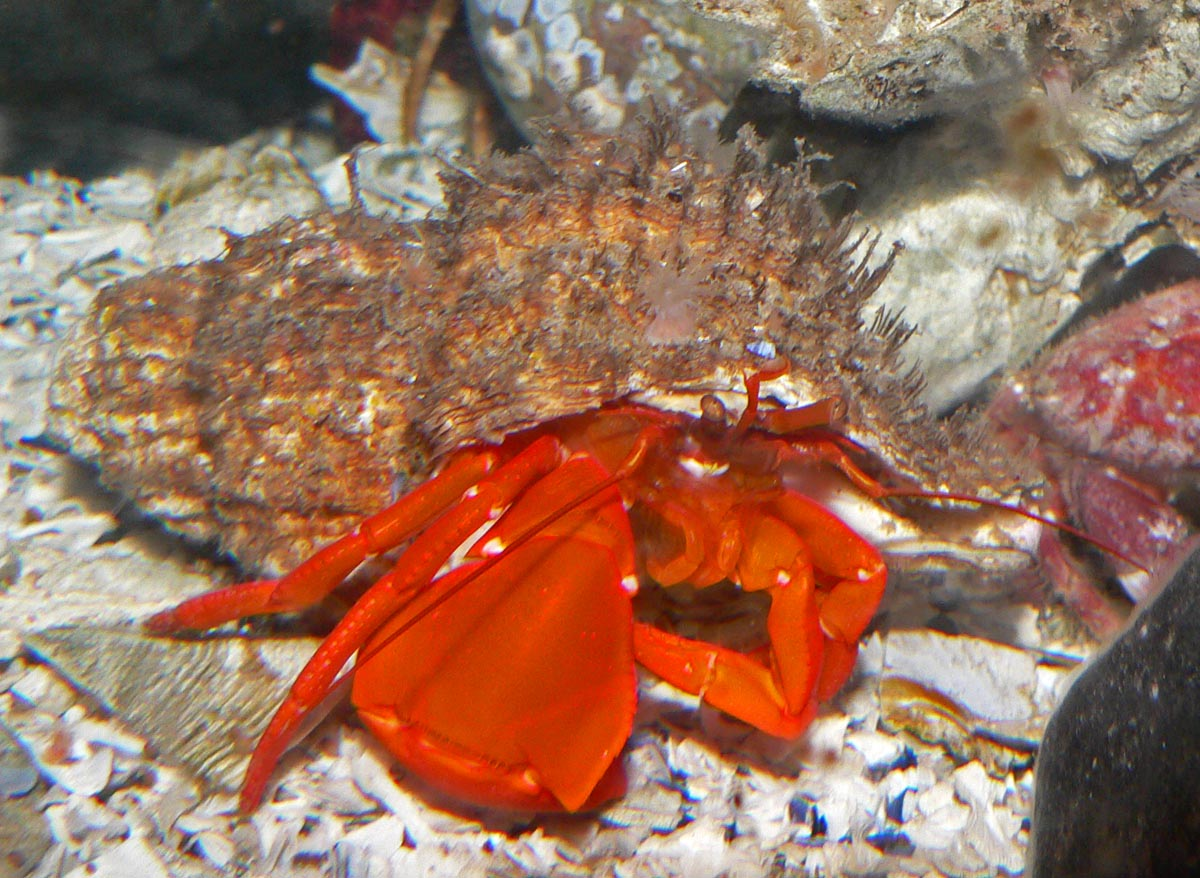 Photo of Elassochirus gilli (Pacific red hermit crab) at the Vancouver Aquarium